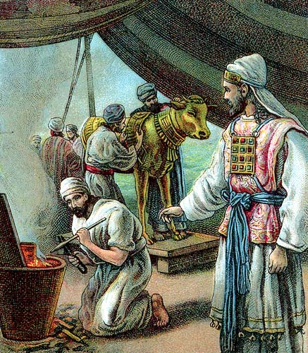 The Golden Calf, Exodus 32:1-8, 30-35, illustration from a Bible card published 1907 by the Providence Lithograph Company